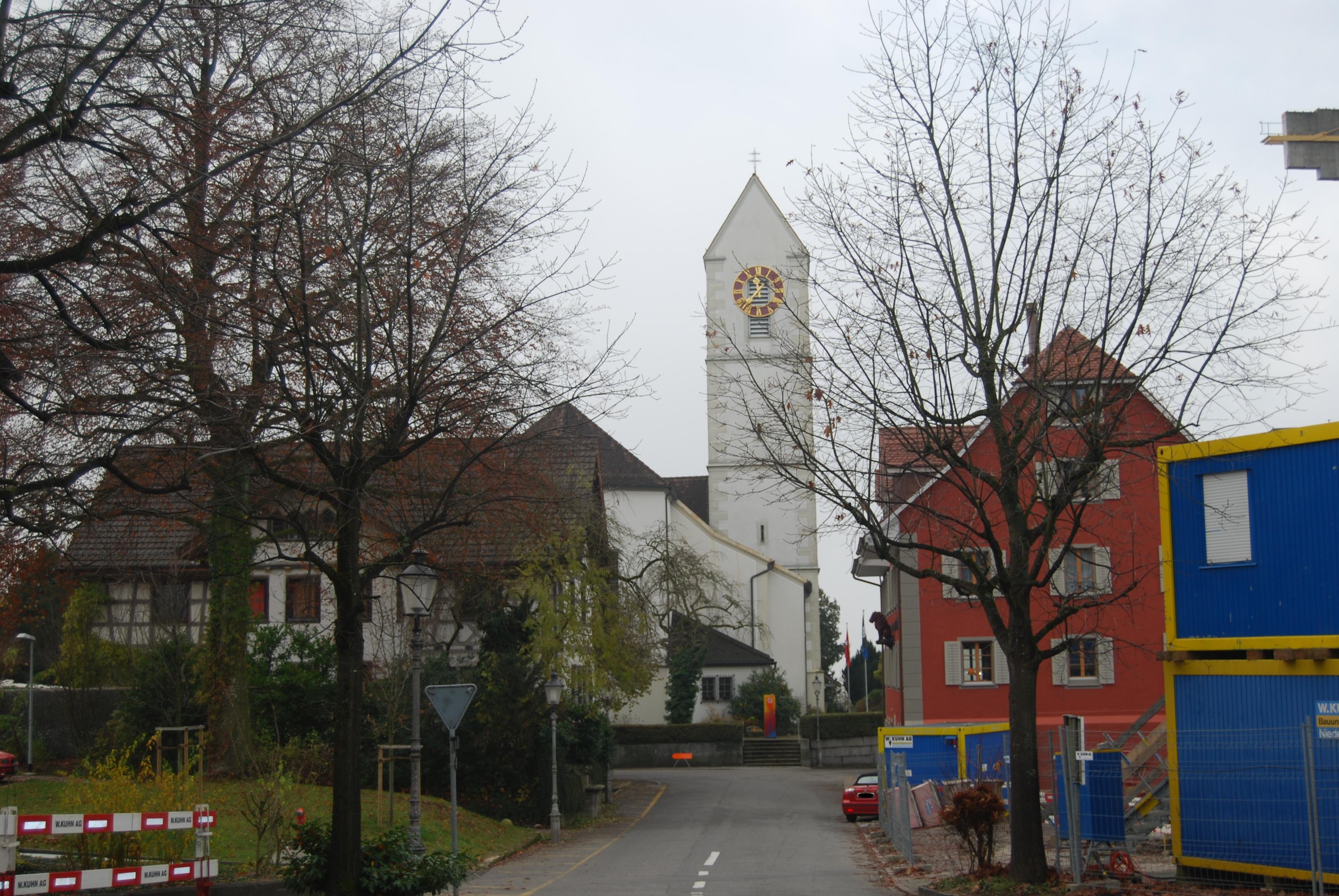 Church of Oberrohrdorf, canton of Aargau, SwitzerlandEsperanto: Preĝejo de Oberrohrdorf, Kantono Argovio, Svislando